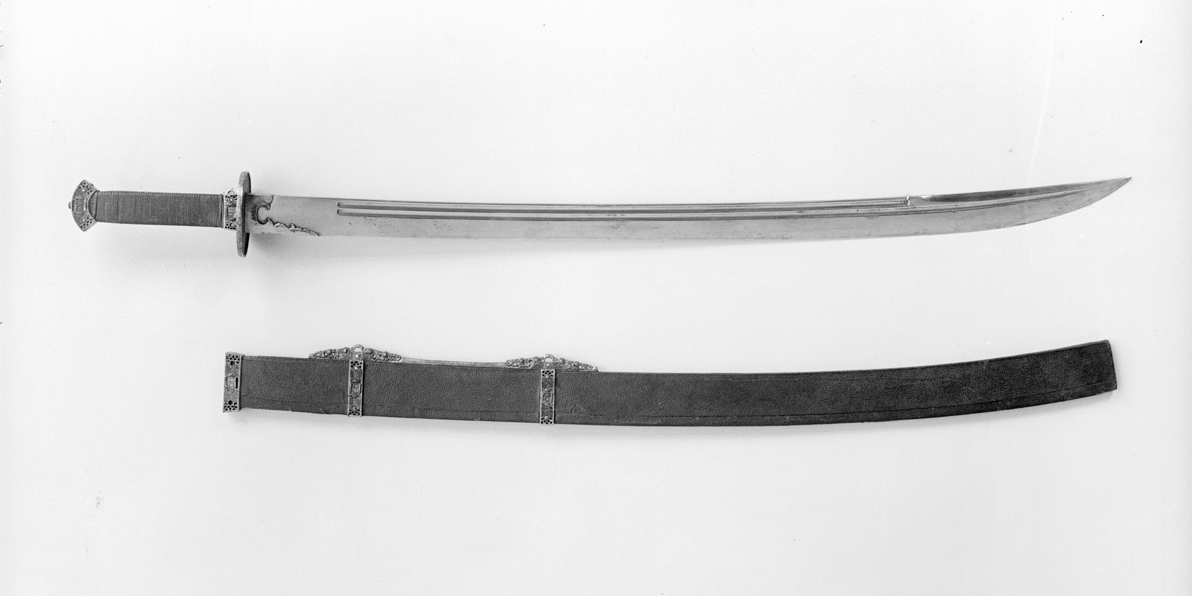 Chinese; Sword with scabbard; Swords